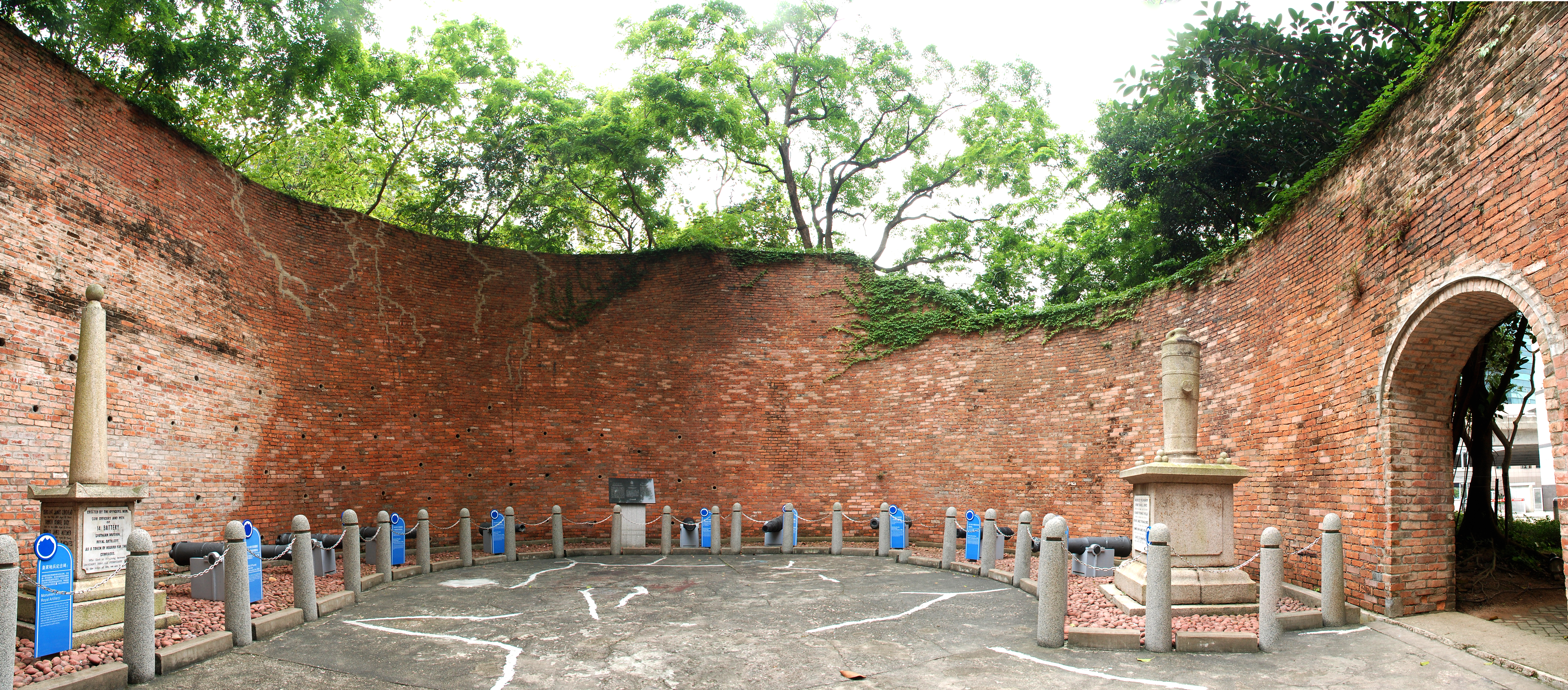 Hong Kong Museum of Coastal Defence, recent site of gunpowder factory.